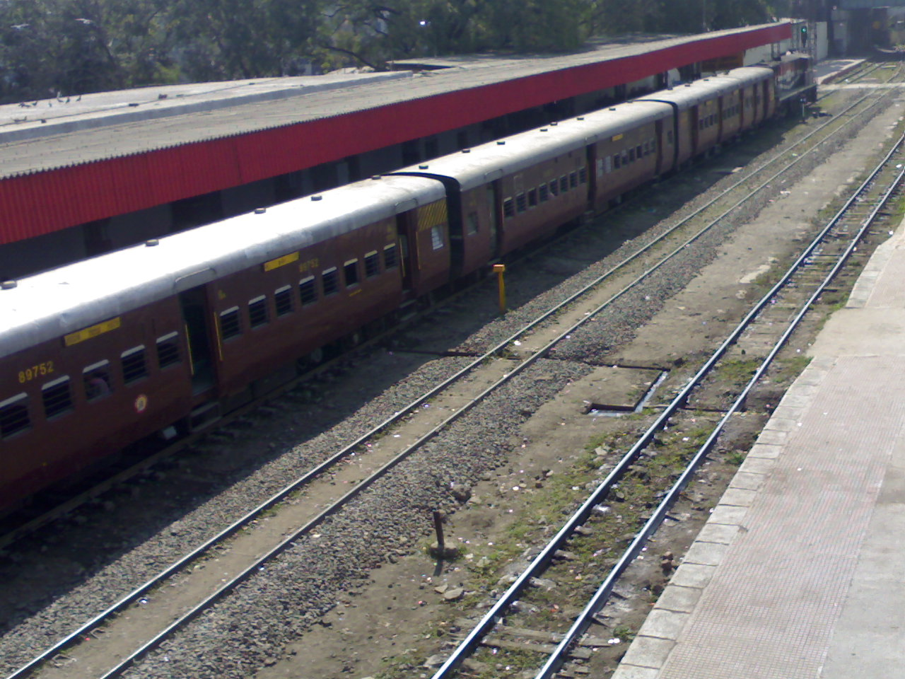 A local train at Indore Junction MG railway station of Indore